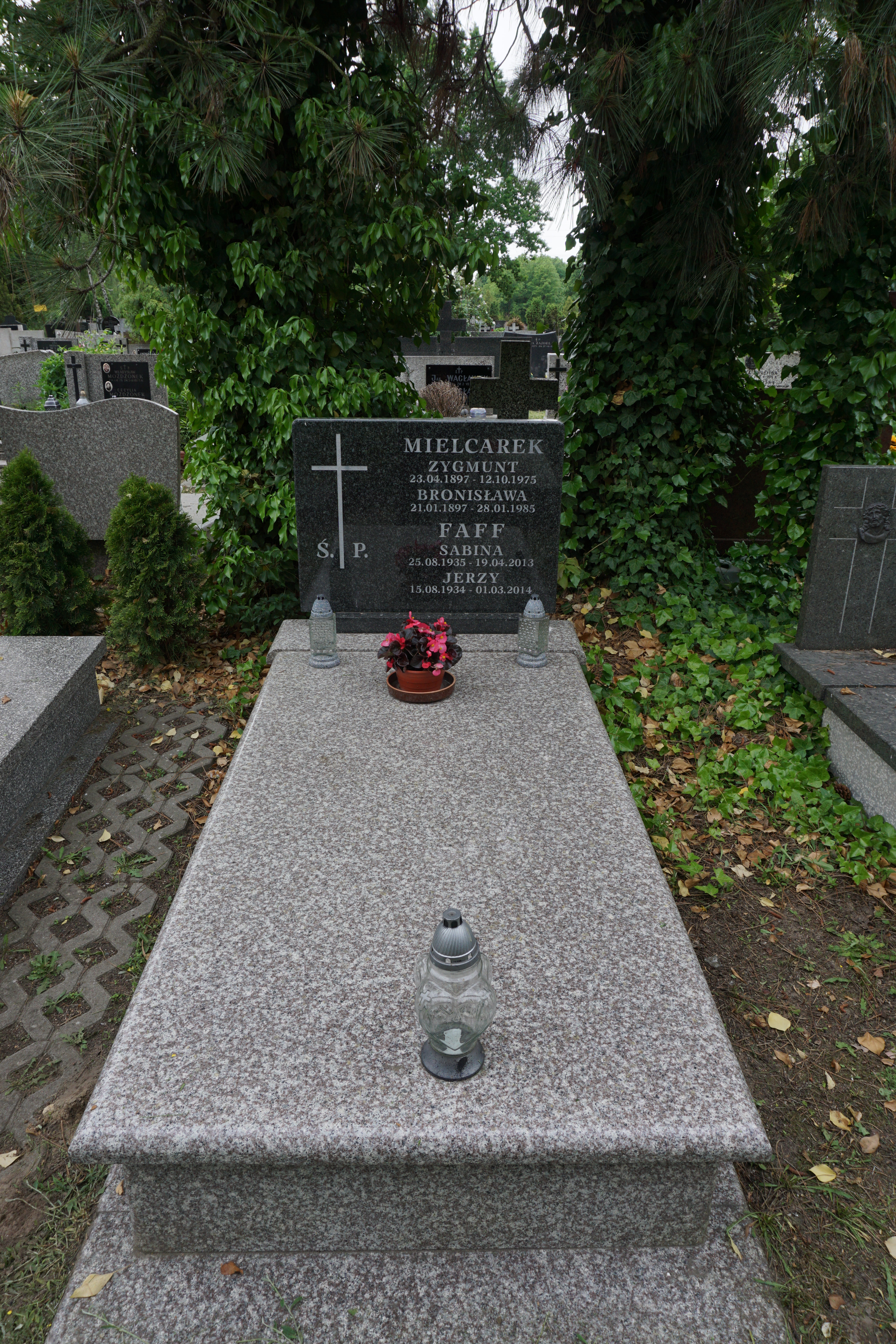 The grave of Jerzy Faff at the North Municipal Cemetery in Warsaw (section E-XI-3, row 5, grave 5)